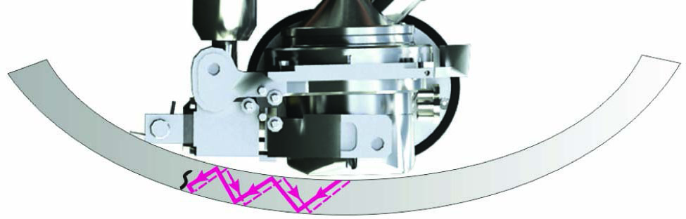 Diagram of angle beam EMAT pipeline assessment